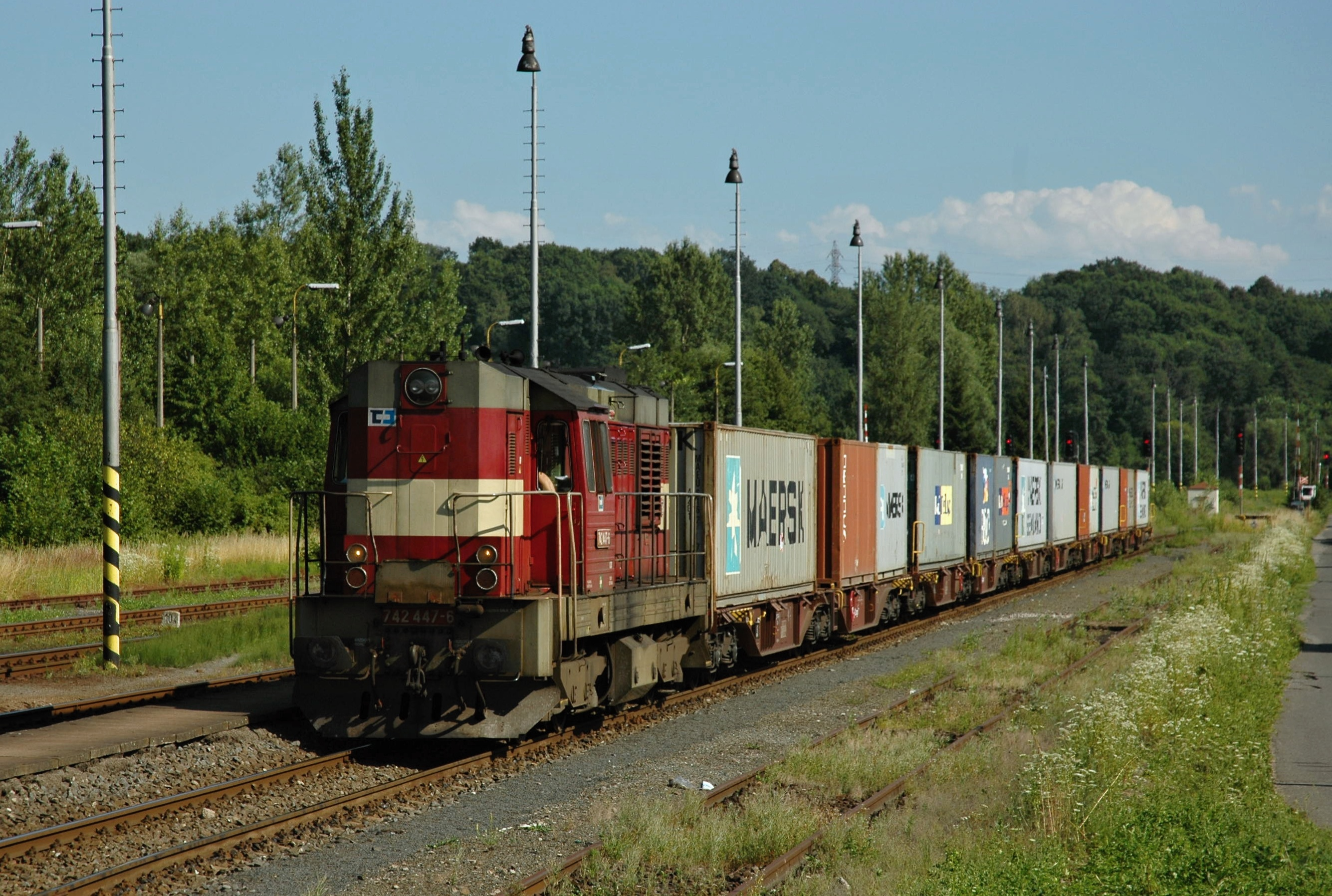 Container train from the Ostrava-Paskov terminal hauled by 742.447 of ČD Cargo; Vratimov station, Czech Republic